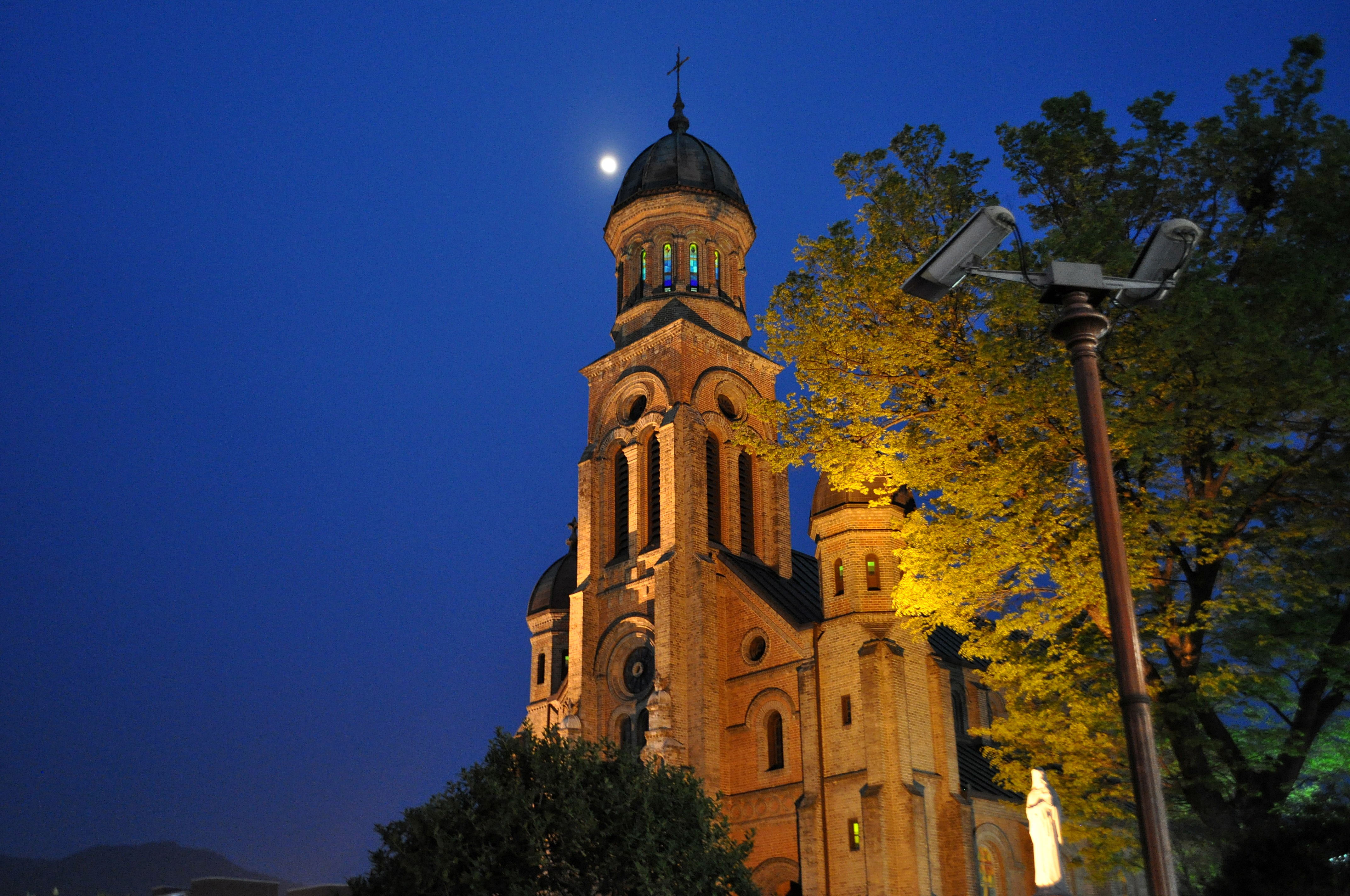 Night view of Jeondong Catholic Church.